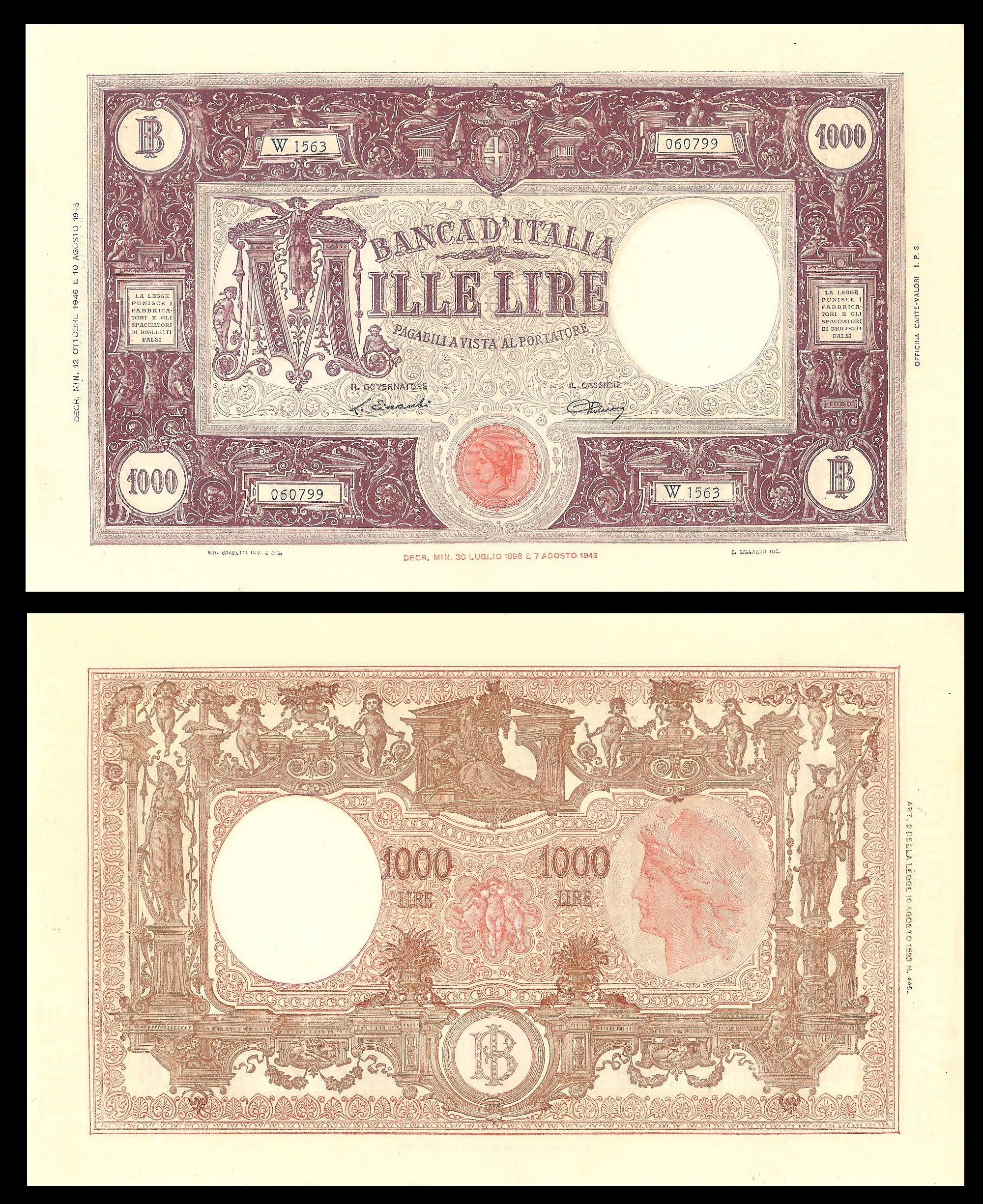 1000 Lire Big M